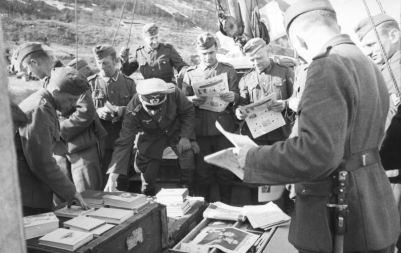 Information added by Wikimedia users.Part of the same roll of film as #02, #05, #15, #20, #21, #25A, #28A, #29A. #05 is easily identifiable as being taken in Tromsø, which makes it highly likely that the rest of the roll was taken there too.